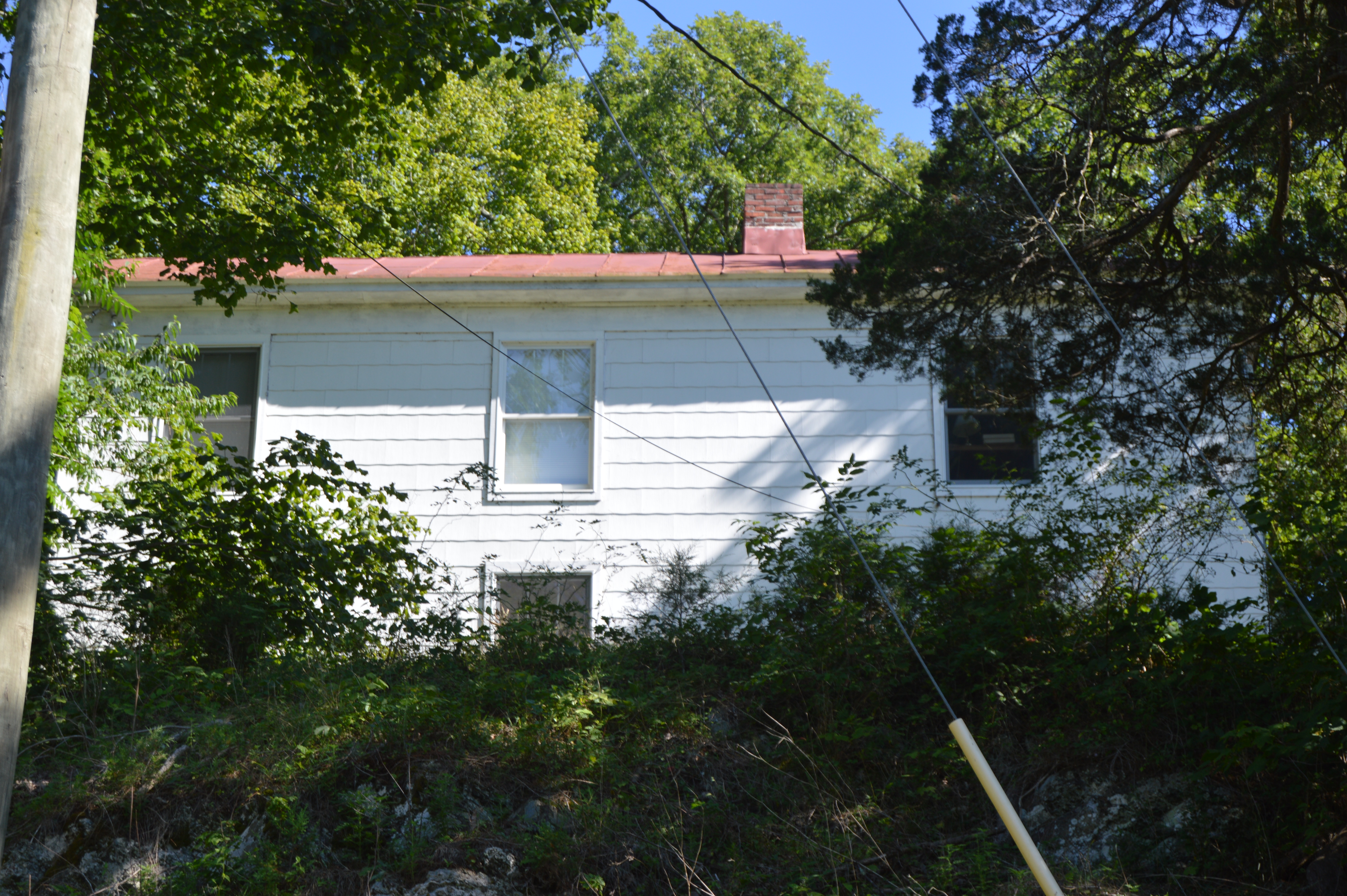 A building by the main entrance to Camp Alkulana, located on Little Gibralter [sic] Road at Millboro Springs in Bath County, Virginia, United States. The camp property is listed on the National Register of Historic Places as a historic district.